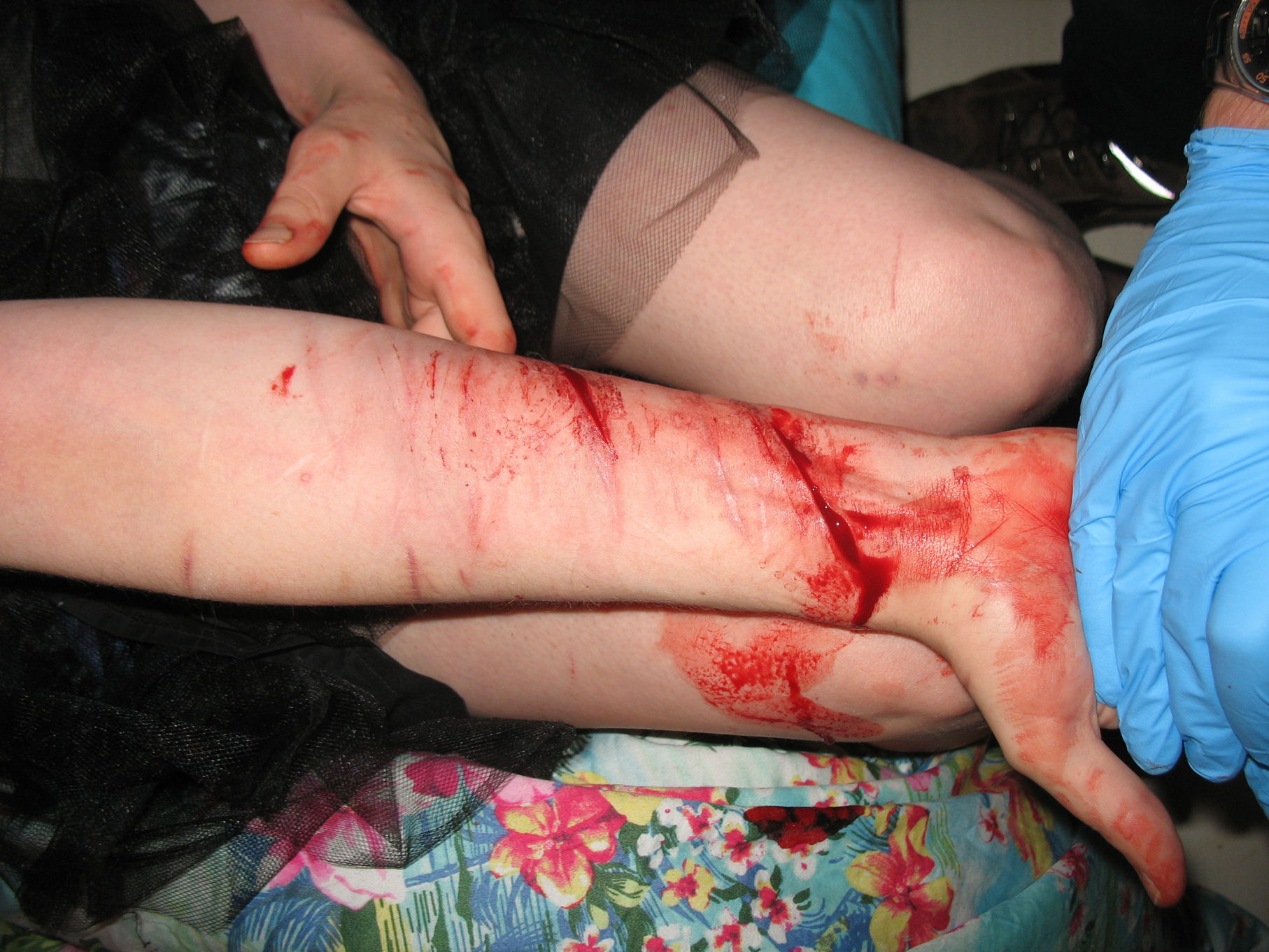 Typical pattern of injuries with fresh cuts and old scars on the forearm of a person with borderline personality disorder